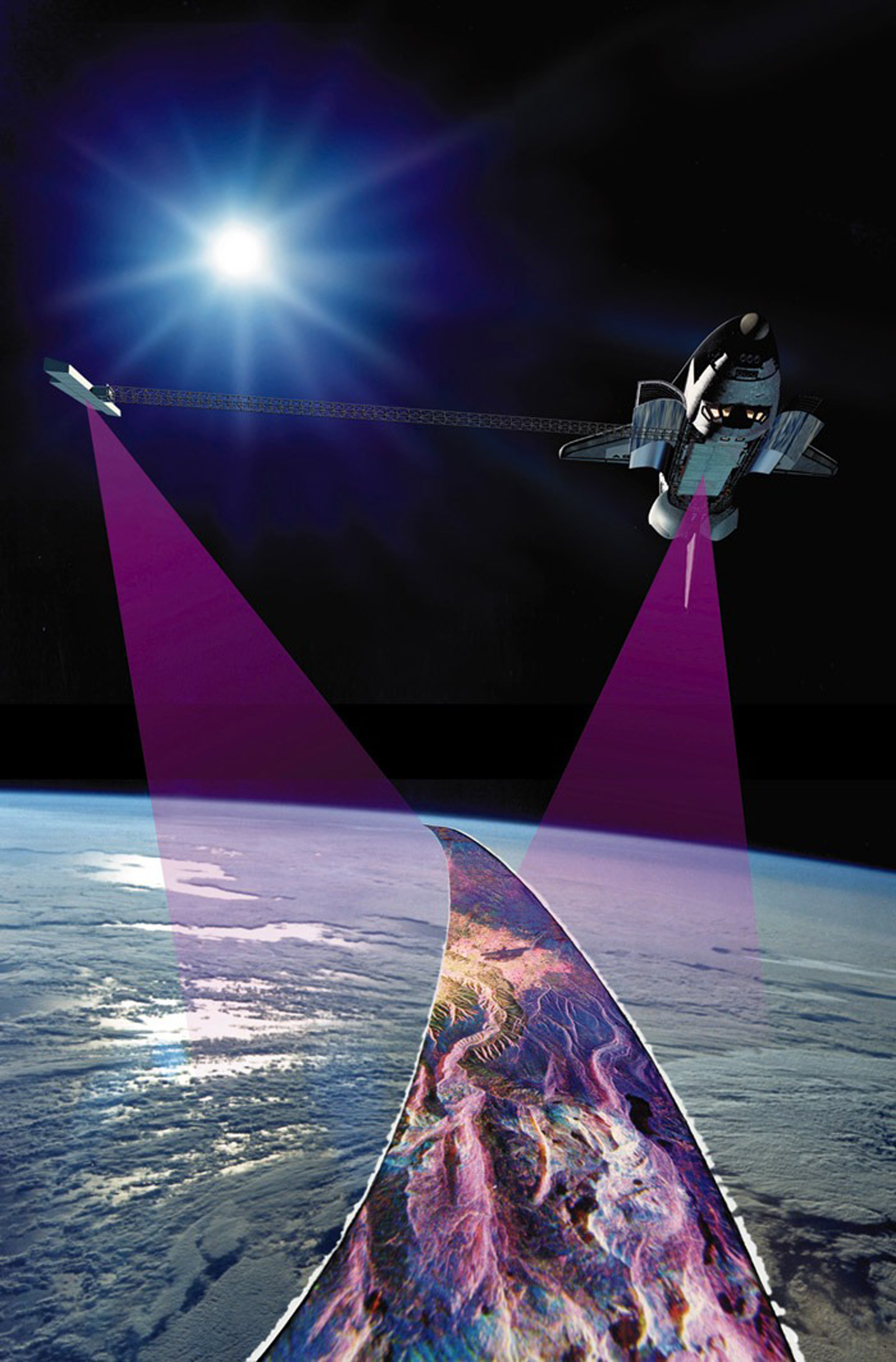 Launched February 11, 2000, the STS-99 Shuttle Radar Topographic Mission (SRTM) was the most ambitious Earth mapping mission to date. This illustration shows the Space Shuttle Endeavour orbiting some 145 miles (233 kilometers) above Earth. With C-band and X-band outboard anternae at work, one located in the Shuttle bay and the other located on the end of a 60-meter deployable mast, the SRTM radar was able to penetrate clouds as well as provide its own illumination, independent of daylight, obtaining 3-dimentional topographic images of the world's surface up to the Arctic and Antarctic Circles. The mission completed 222 hours of around the clock radar mapping, gathering enough information to fill more than 20,000 CDs.